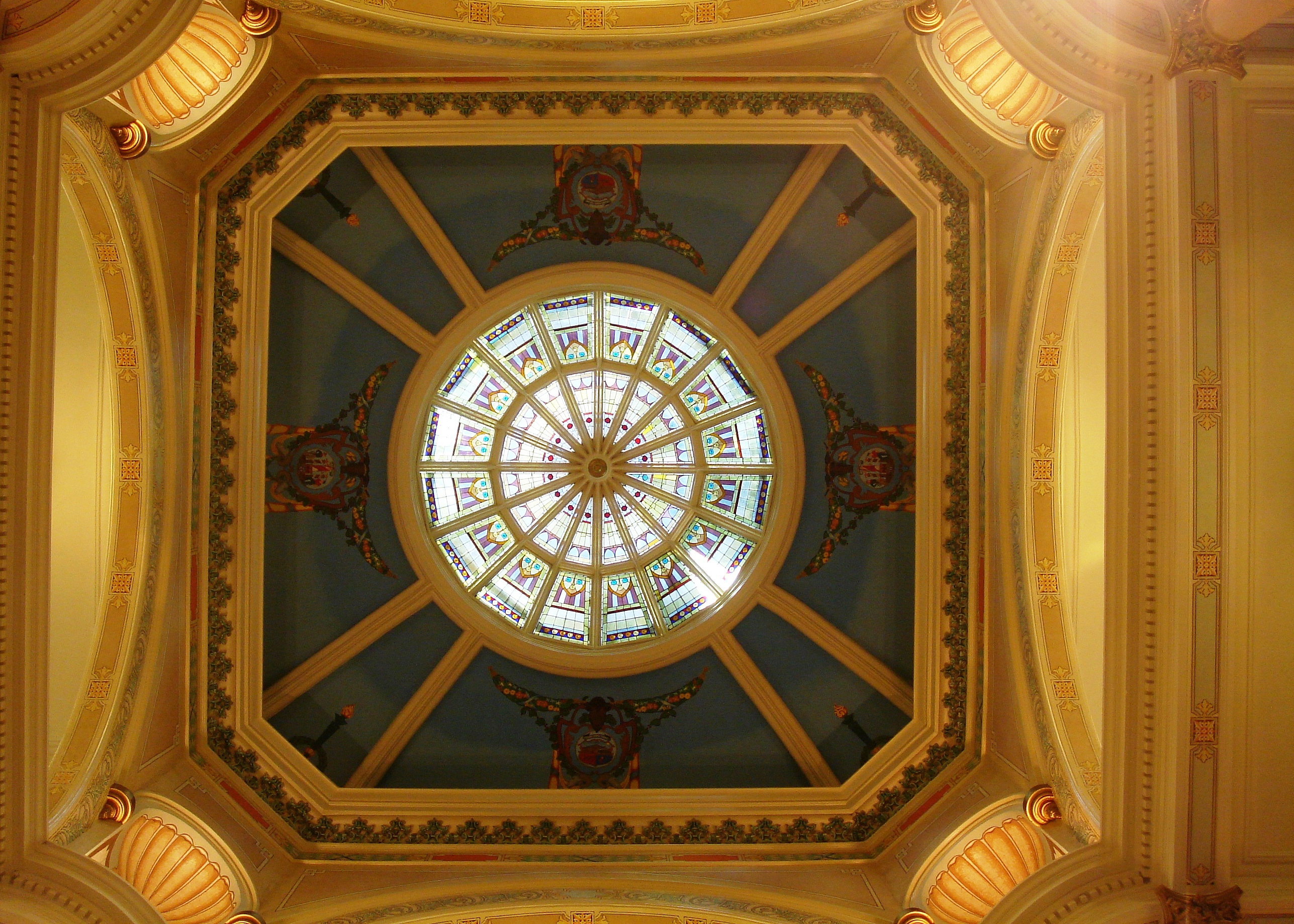 Wyoming State Capitol Dome Ceiling